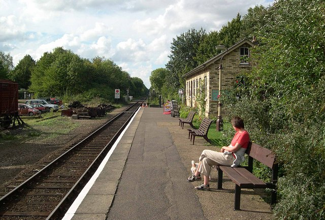 Ferry Meadows Railway Station 2 Looking towards the level crossing.